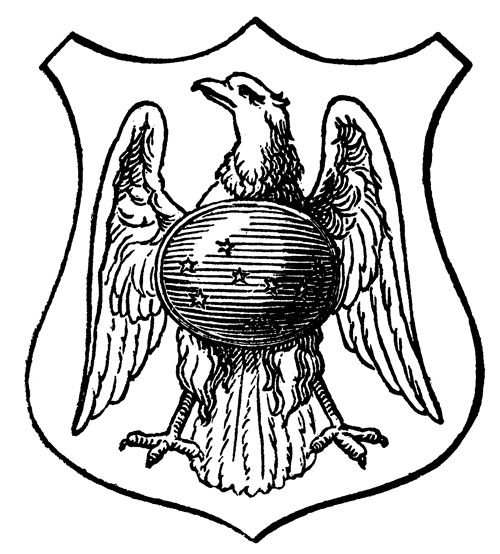 Family crest invented by Wagner at Nietzsche's suggestion.